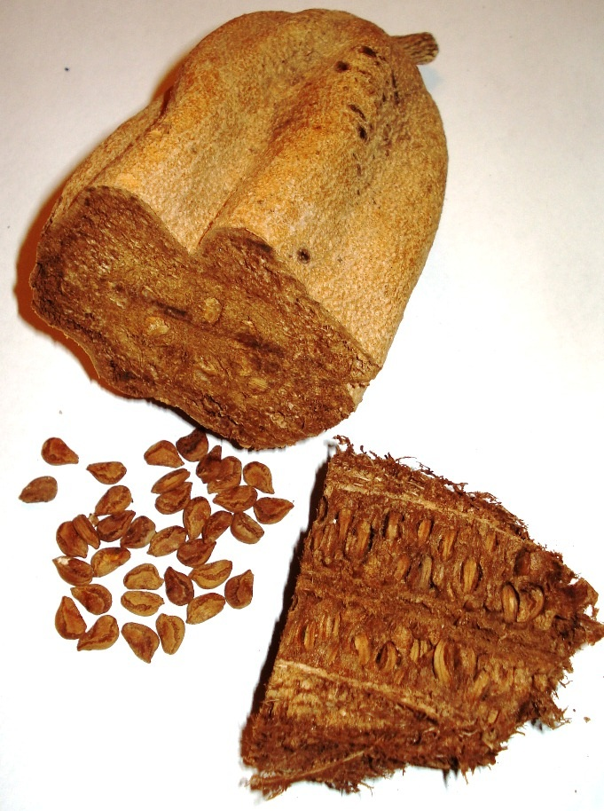 Dried fruit & seeds of Kigelia africana